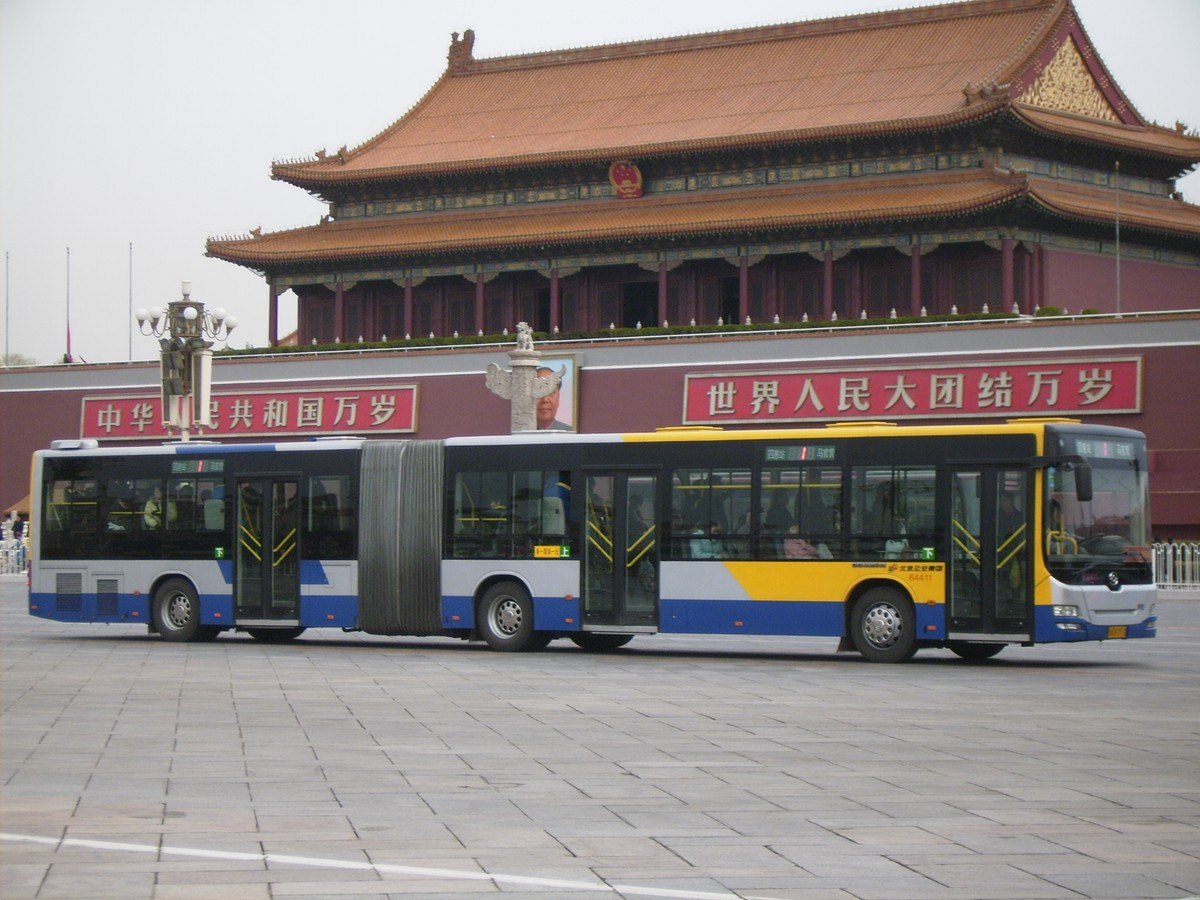 Dandong Huanghai model DD6181S02 (18 meters long) at service of Beijing bus route 1